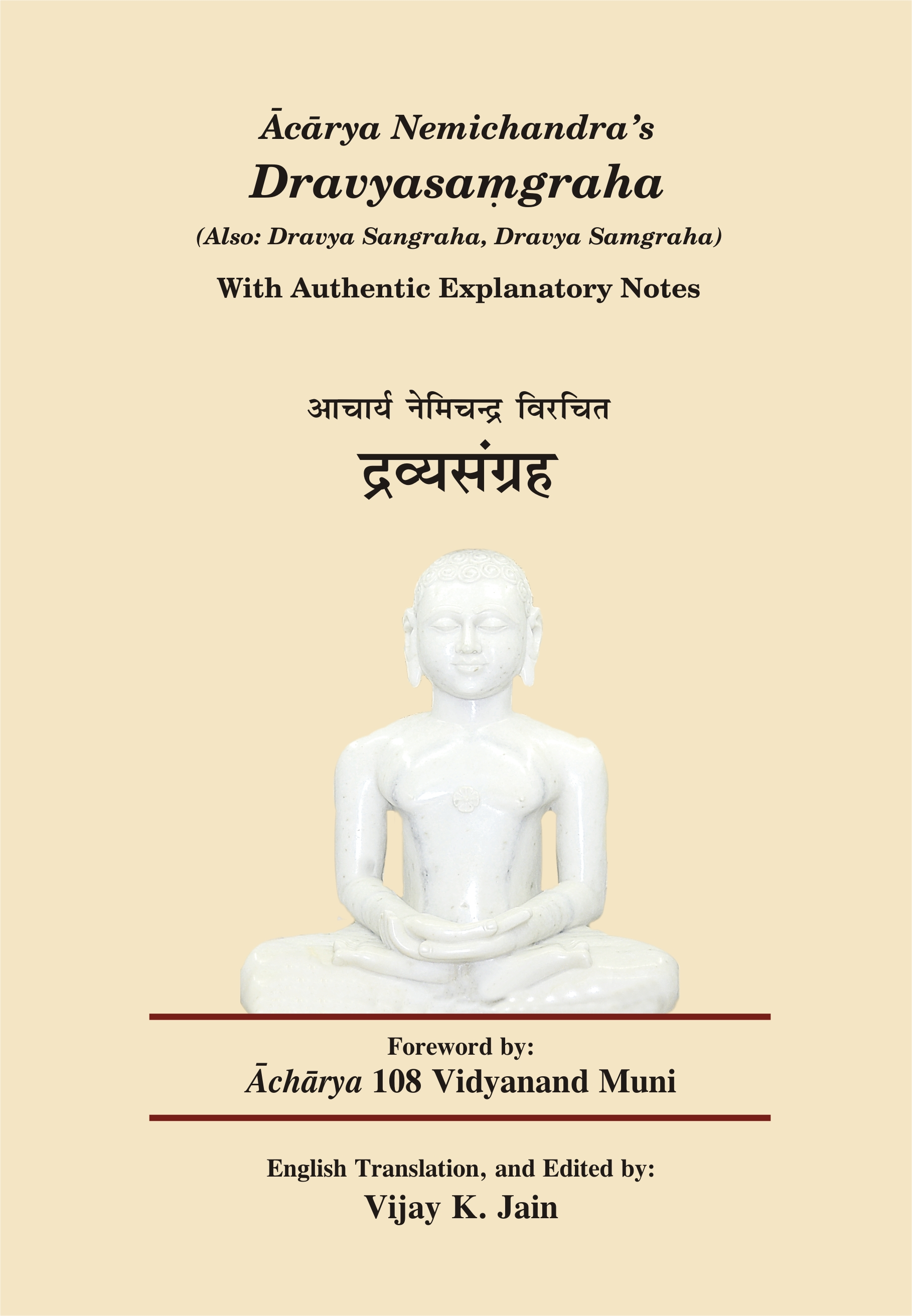 The cover page of the English and Hindi translation of Dravyasaṃgraha. The book is non-copyright.